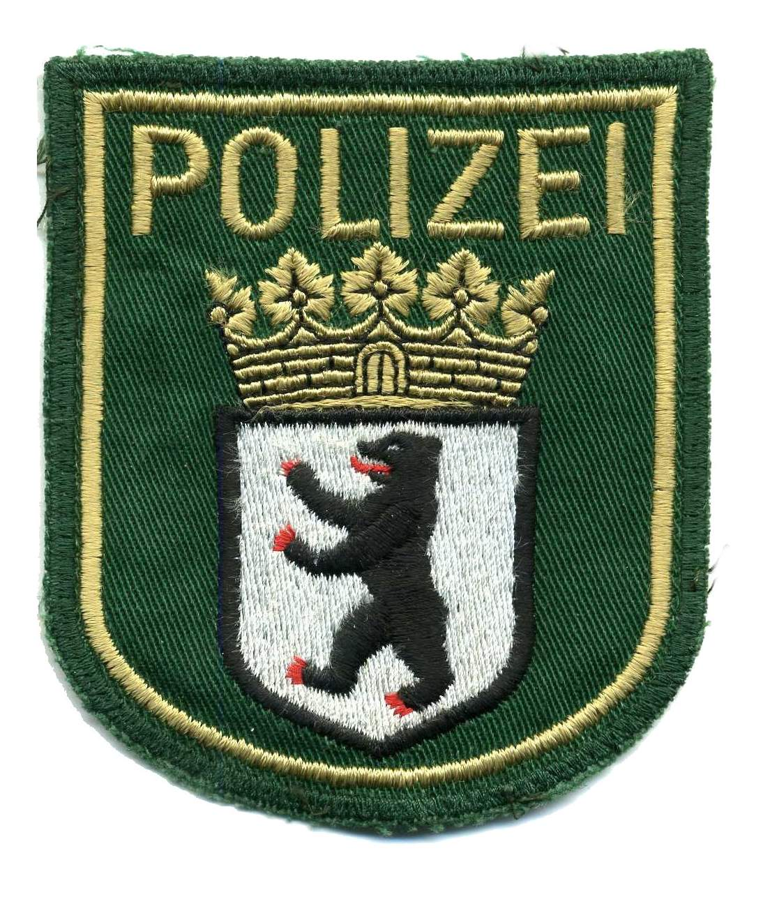 Part of my collection of GERMAN Law Enforcement insignia This agency is one of the 16 Lander (states) which make up the Federal Republic of Germany. The German style of police patch was rationalised upon the "regionalisation" of (West) German policing in the mid-1970s. when all remaining municipal police forces were merged into the State police of the Lander - and now the patch of all State Police forces comprises the word POLIZEI above the State coat of arms.